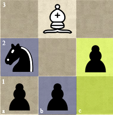 screen capture of chess program